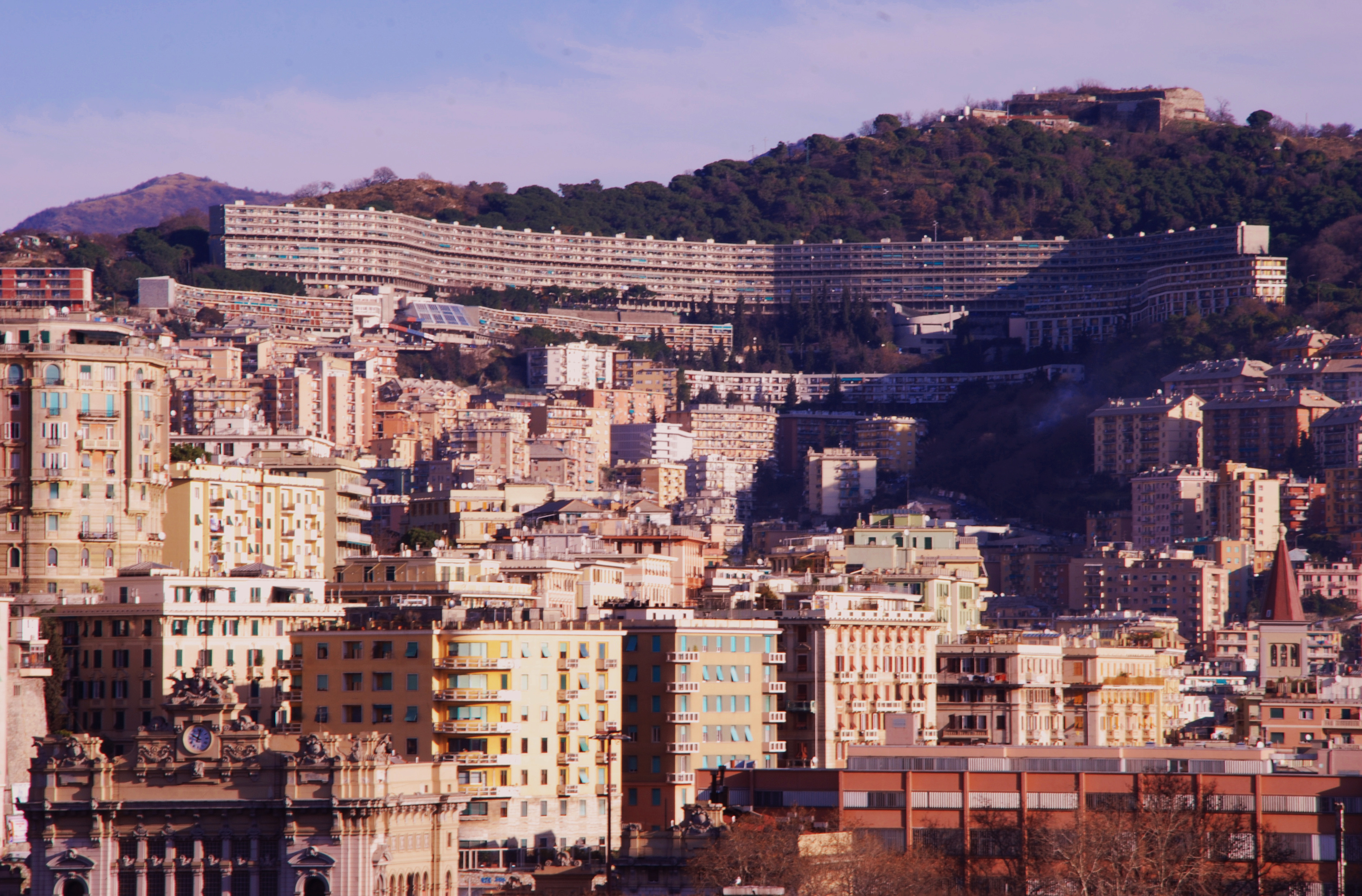 view of the residential housing named "Biscione" up the hill of Quezzi, Genova